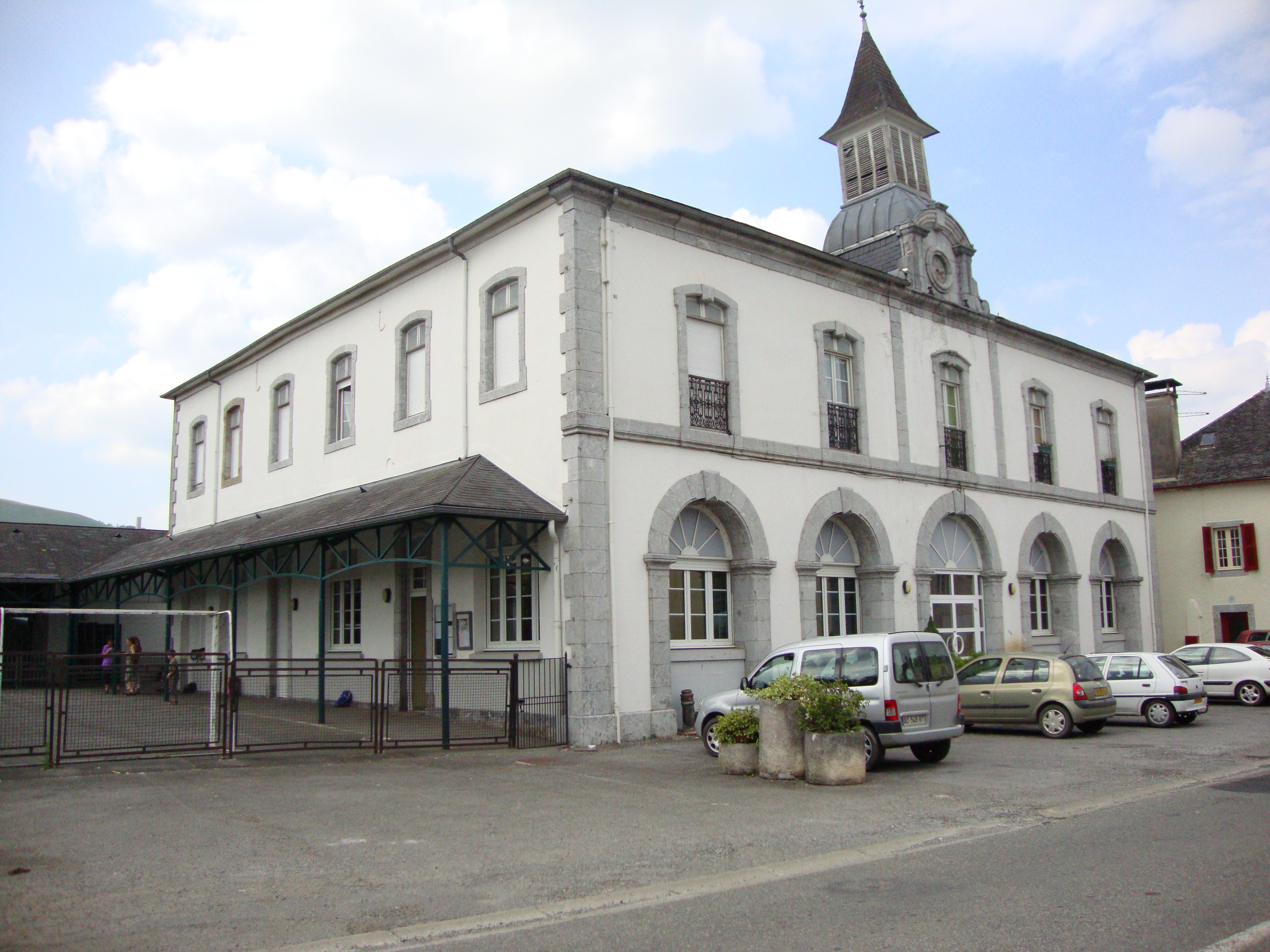 Aramits (Pyr-Atl, Fr) school